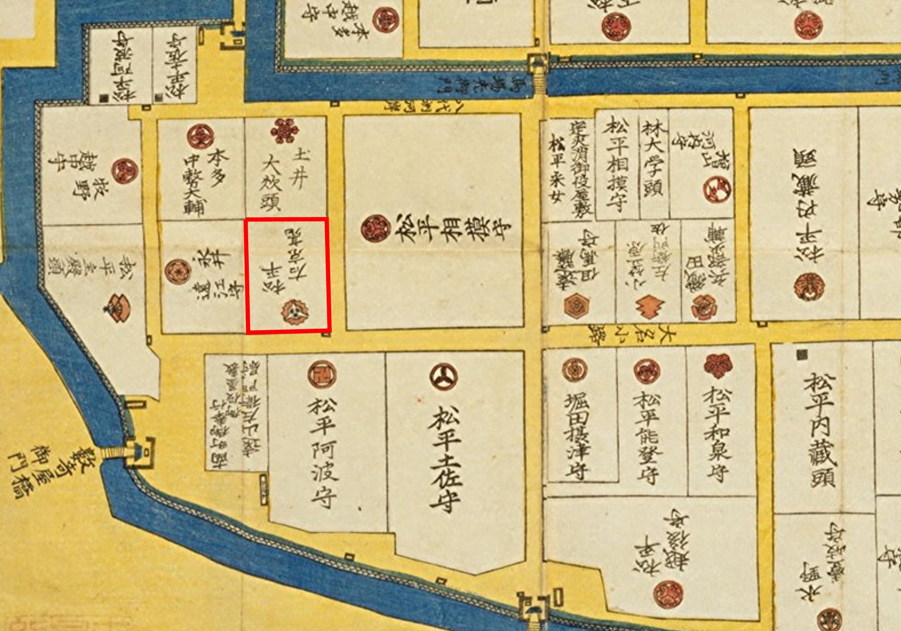 Residence of Takasaki-Okochi at Edo